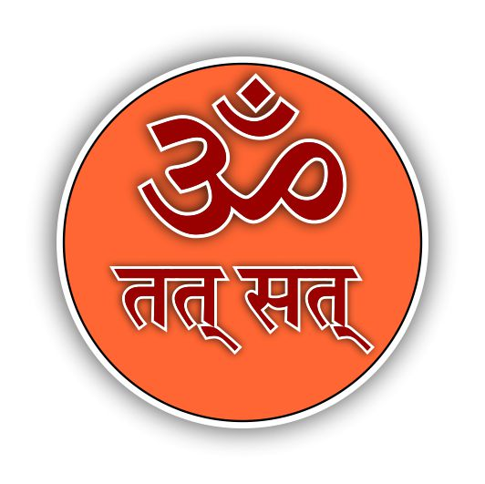 Om Tat Sat orange circle